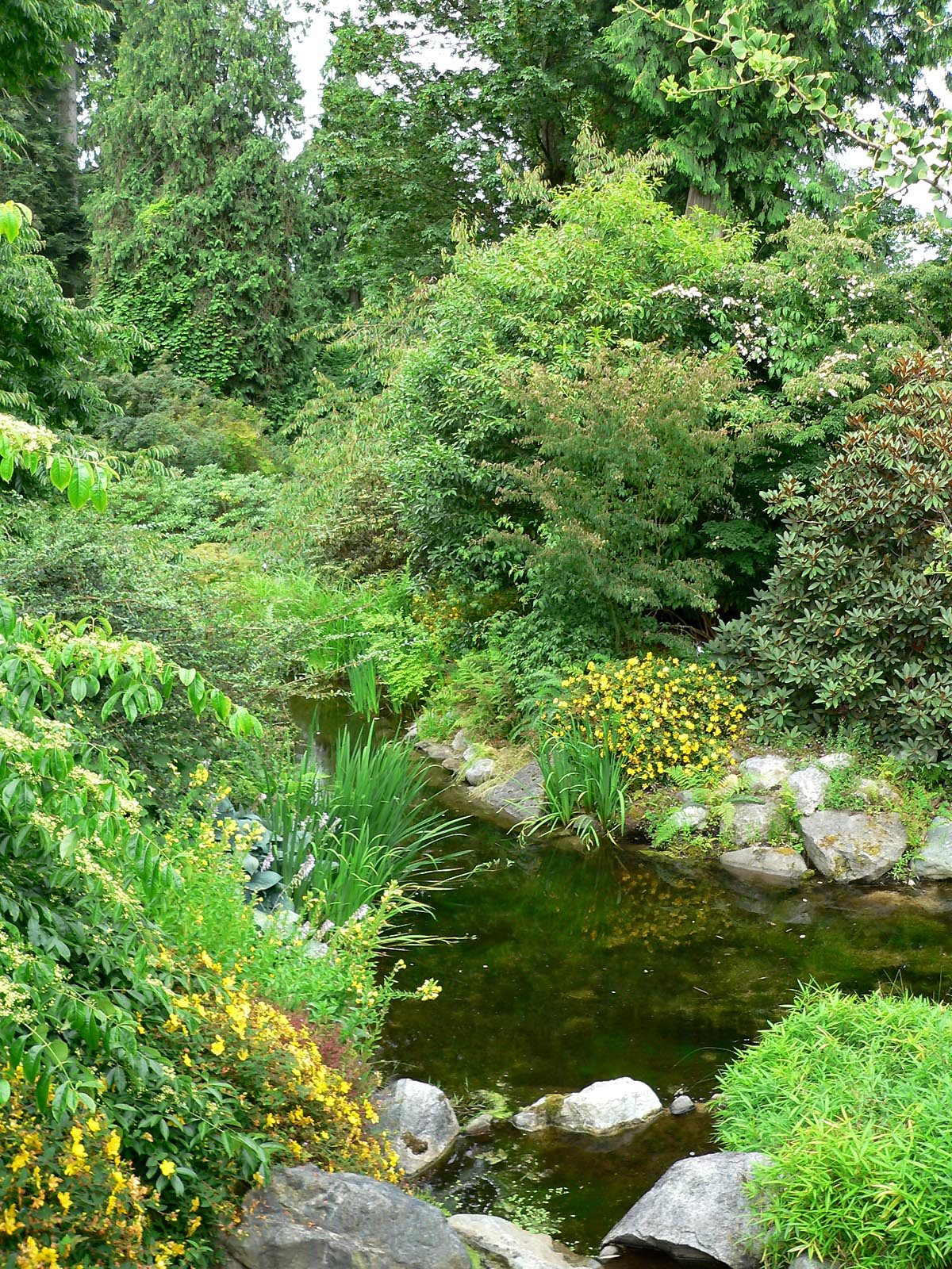 Photo of water in the UBC Botanical Garden